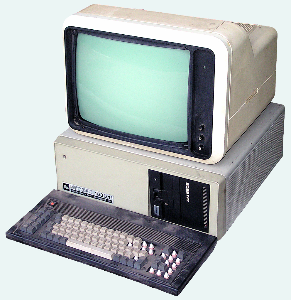 ISKRA 1030.11, soviet IBM PC XT compatible PC based on КР1810ВМ86 processor (i8086 analog)